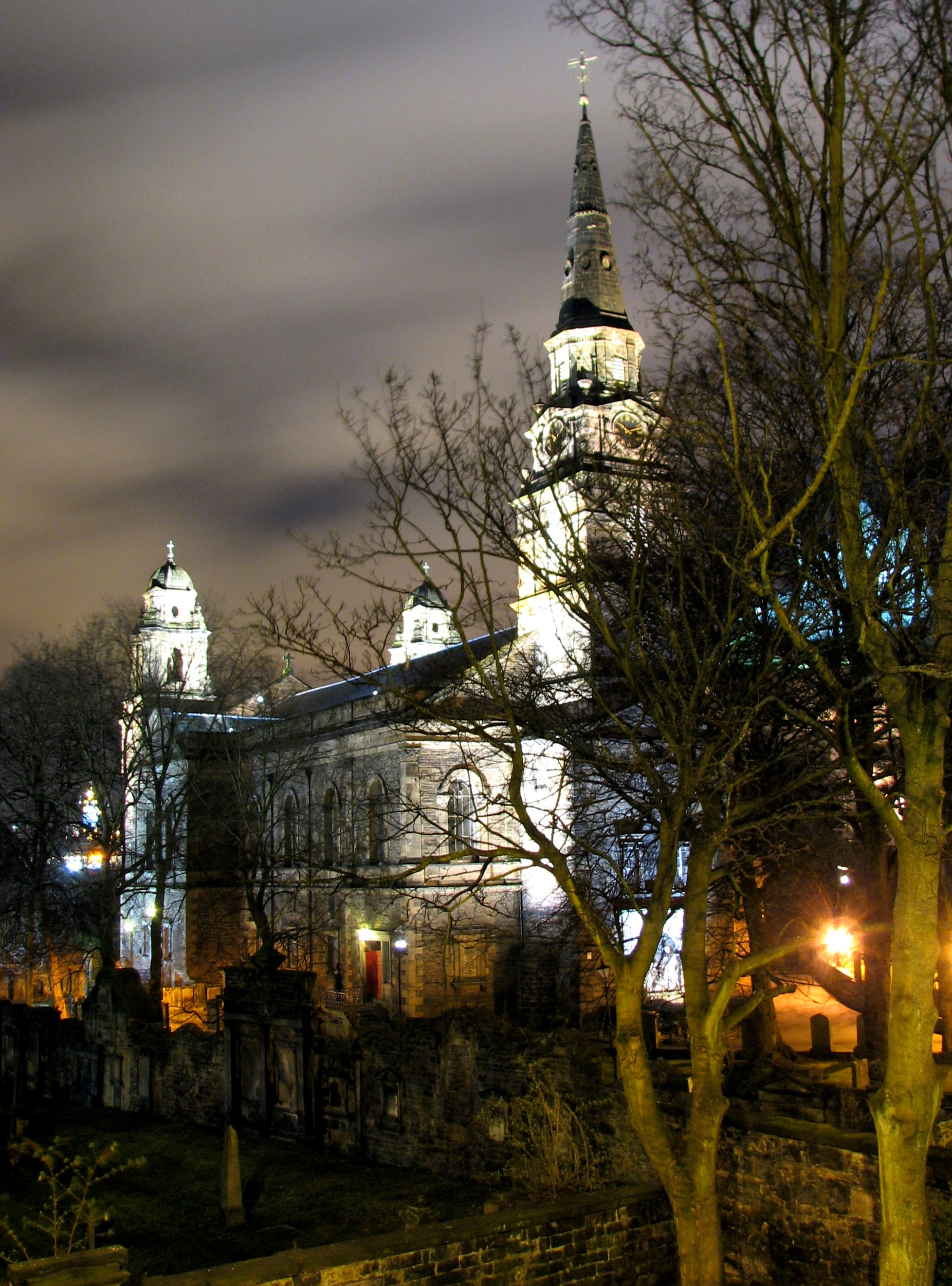 Photo taken of a church in Edinburgh, Scotland.